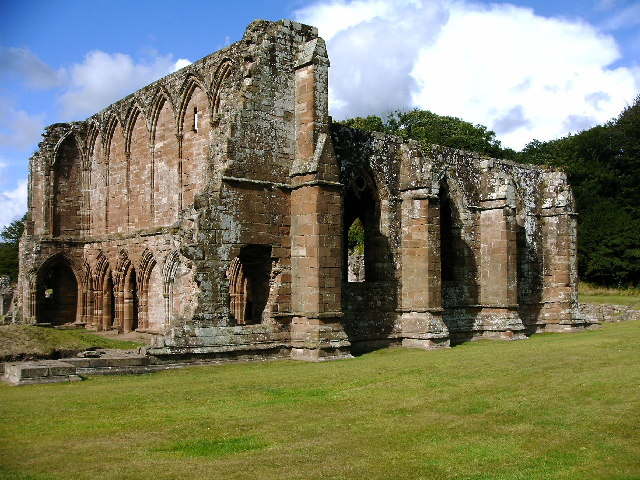 Furness Abbey. Part of the Furness Abbey ruins. Photo taken from the nearby road.